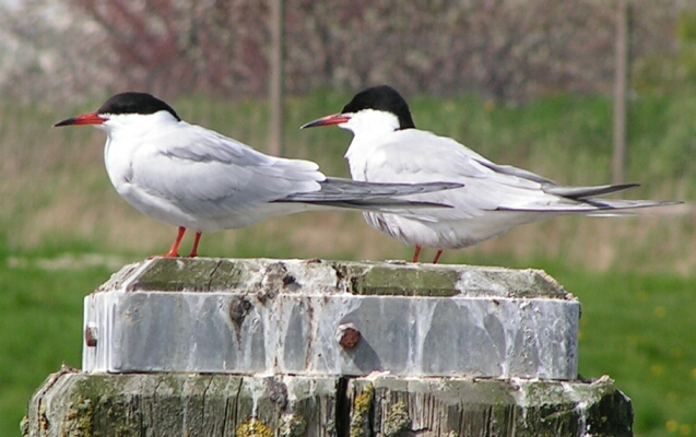 Sterna hirundo couple